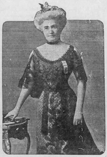 Marion Howard Brazier (April 29, 1909)